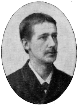 Image scanned from the book "Svenskt Porträttgalleri XX - Arkitekter, Bildhuggare, Målare m.fl. " ("Swedish Portrait Gallery XX - Architects, Sculptors, Painters, ") published 1901